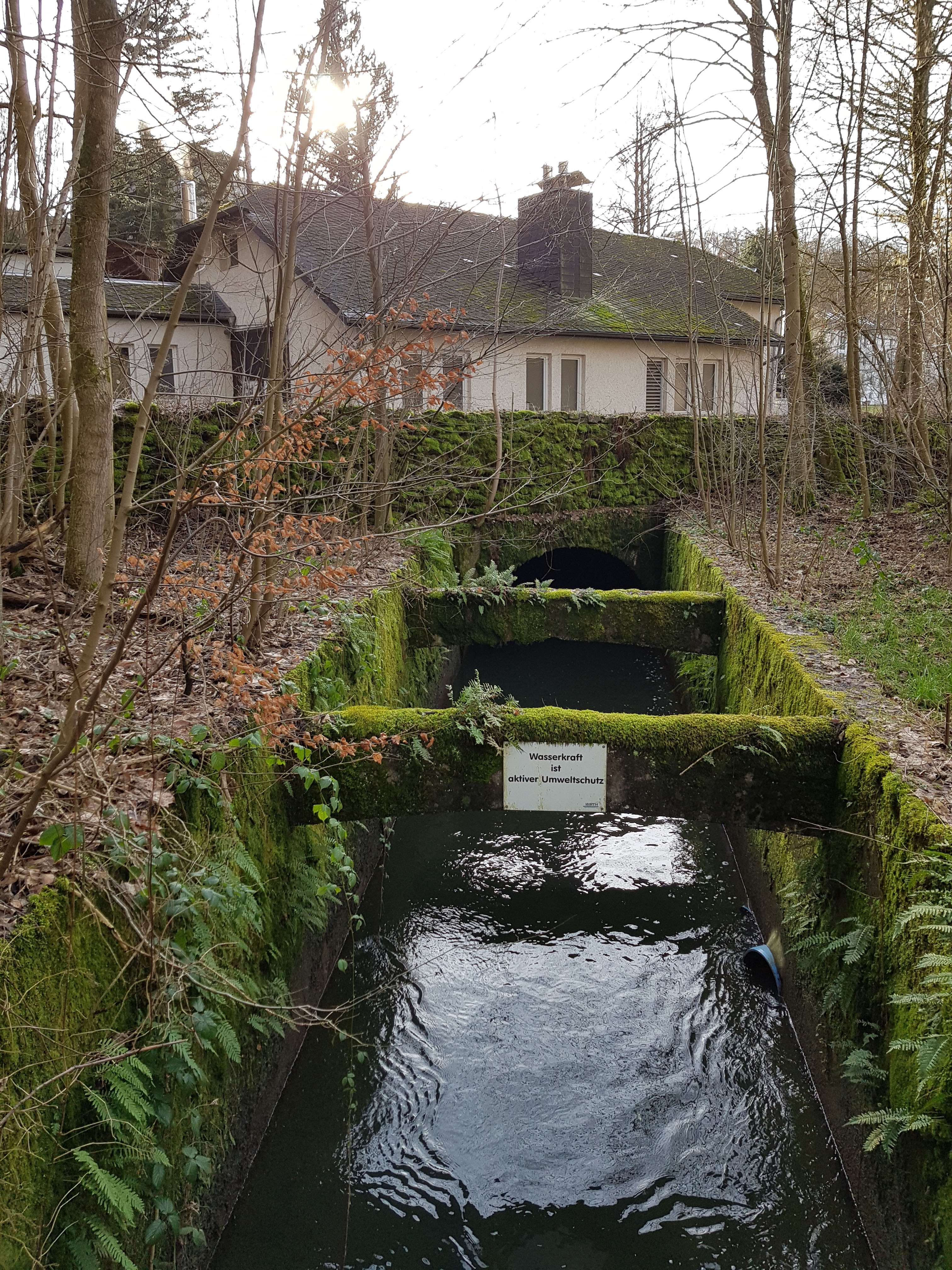 Wasserkraft